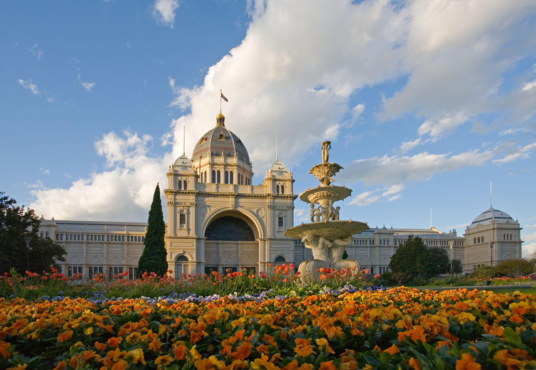 A view of the south-facing side of the Royal Exhibition Building in Melbourne, Australia. It was built in 1880 and is the first building to be given a World Heritage Site listing in Australia. This image was taken with a Canon 5D and 17-40mm f/4L lens on 13th of October, 2005.